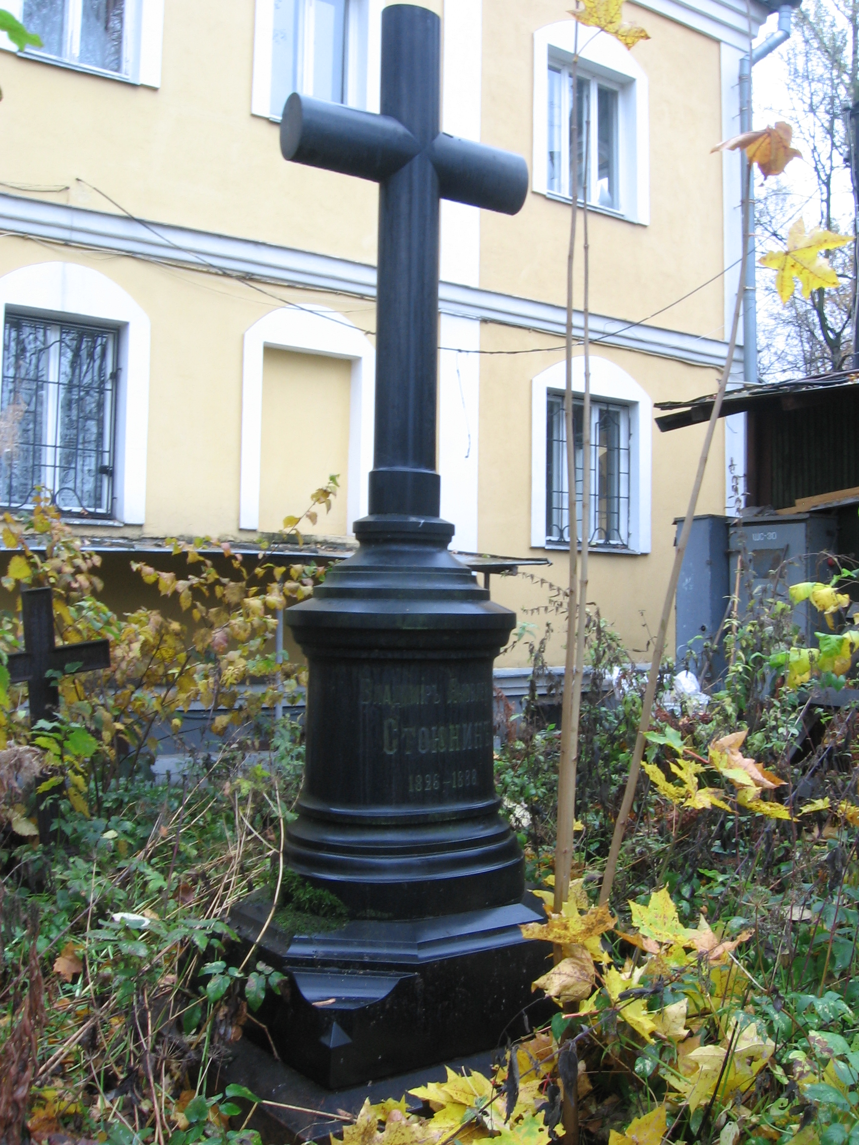 Grave of Vladimir Stoyunin